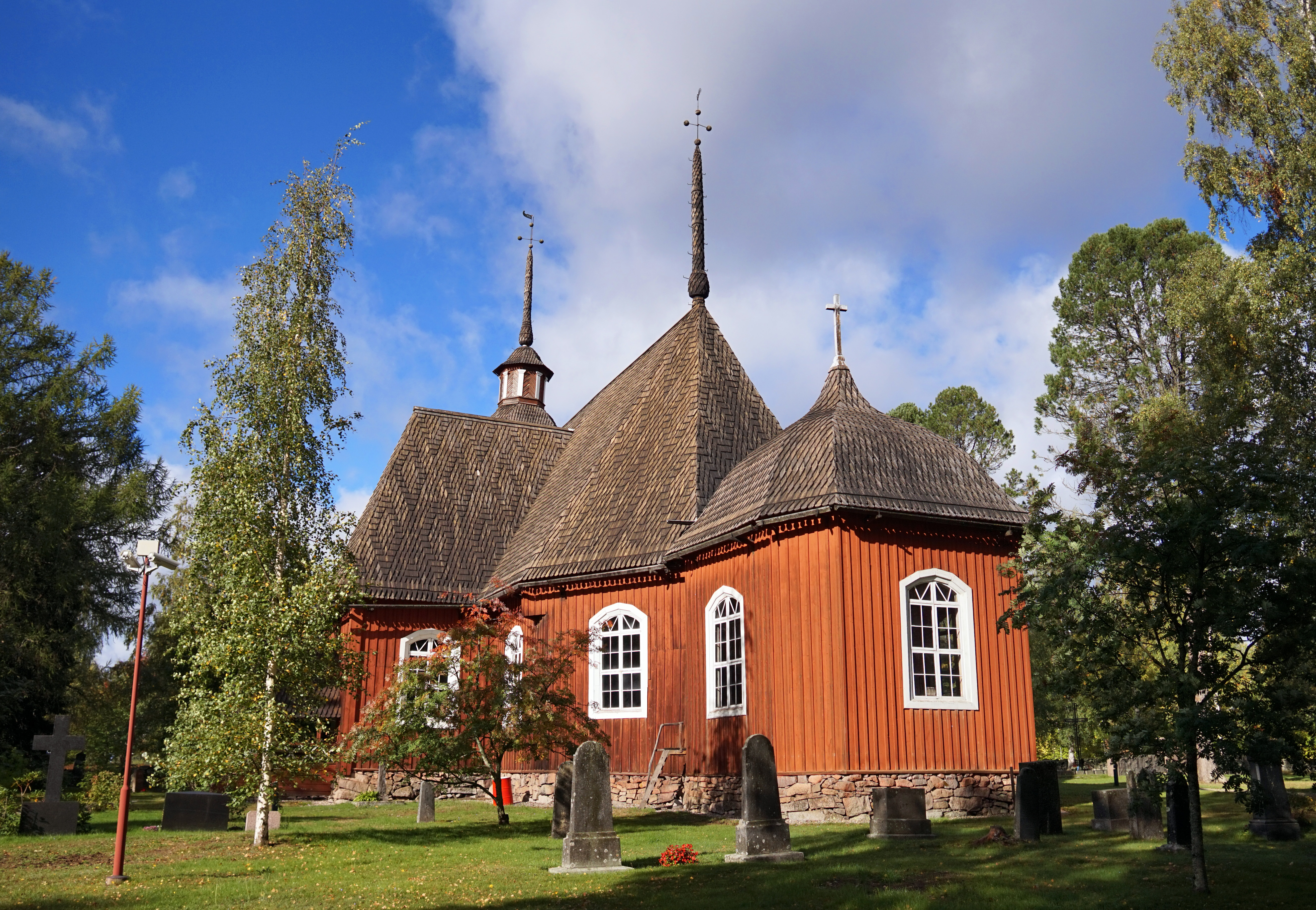 Keuruu Old Church This is a photo of a monument in Finland identified by the ID 'Keuruu Old Church' (Q11871227)